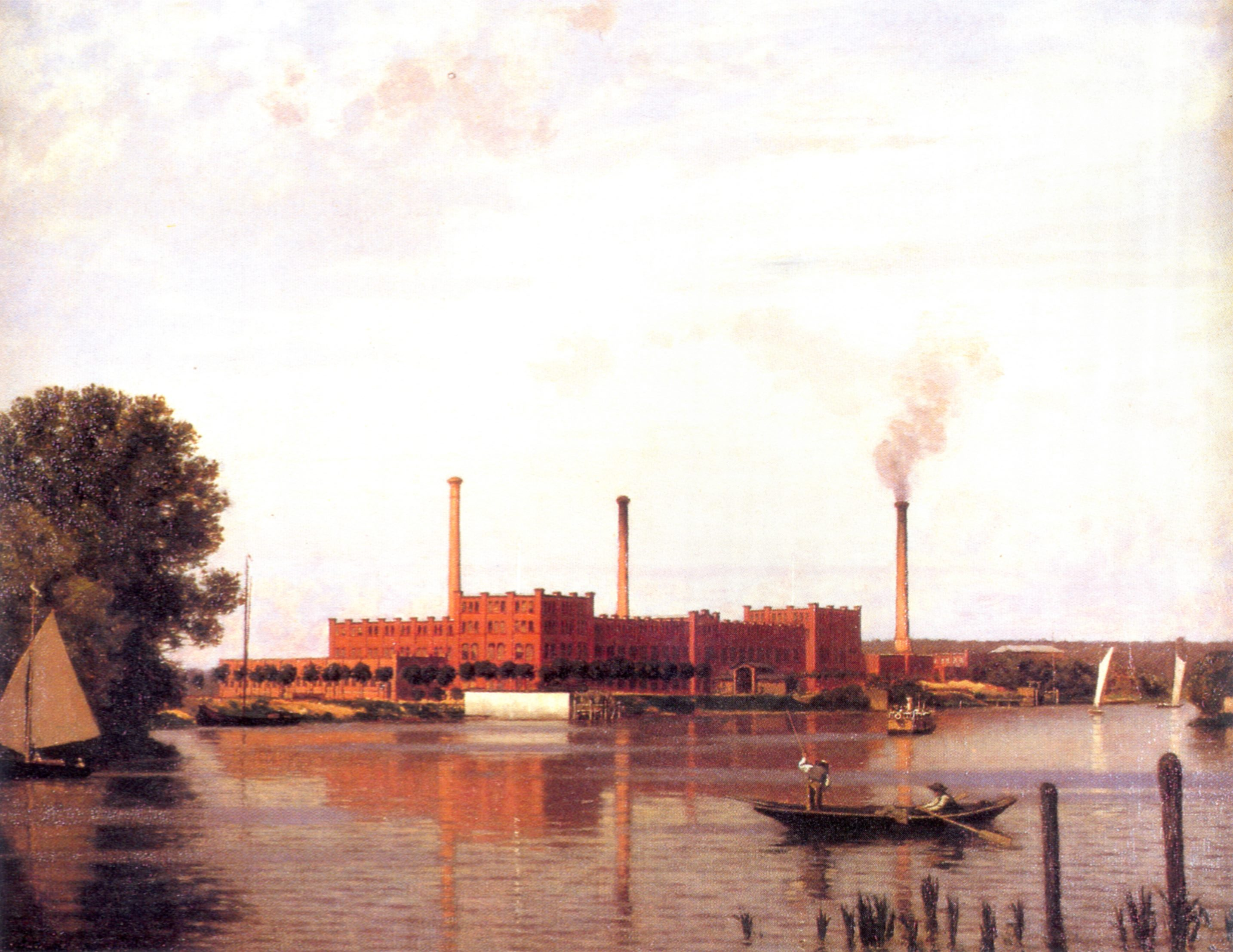 Berlin - Laundry and Dyeing Company Spindler by the River Spree near Köpenick, painting by an unknown artist 1881